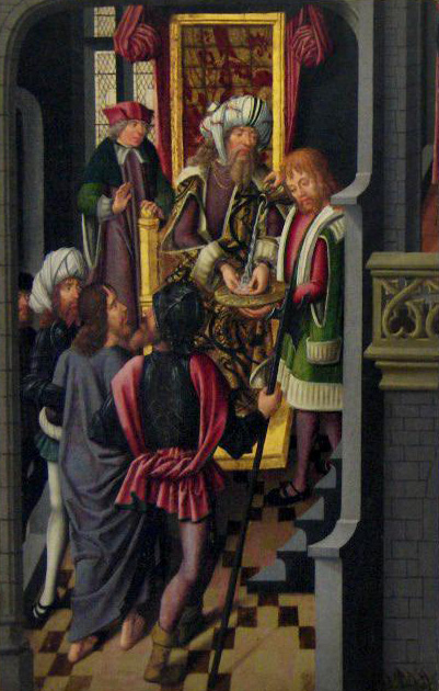 Christ before Pilate by Jan Baegert (1465-1527)